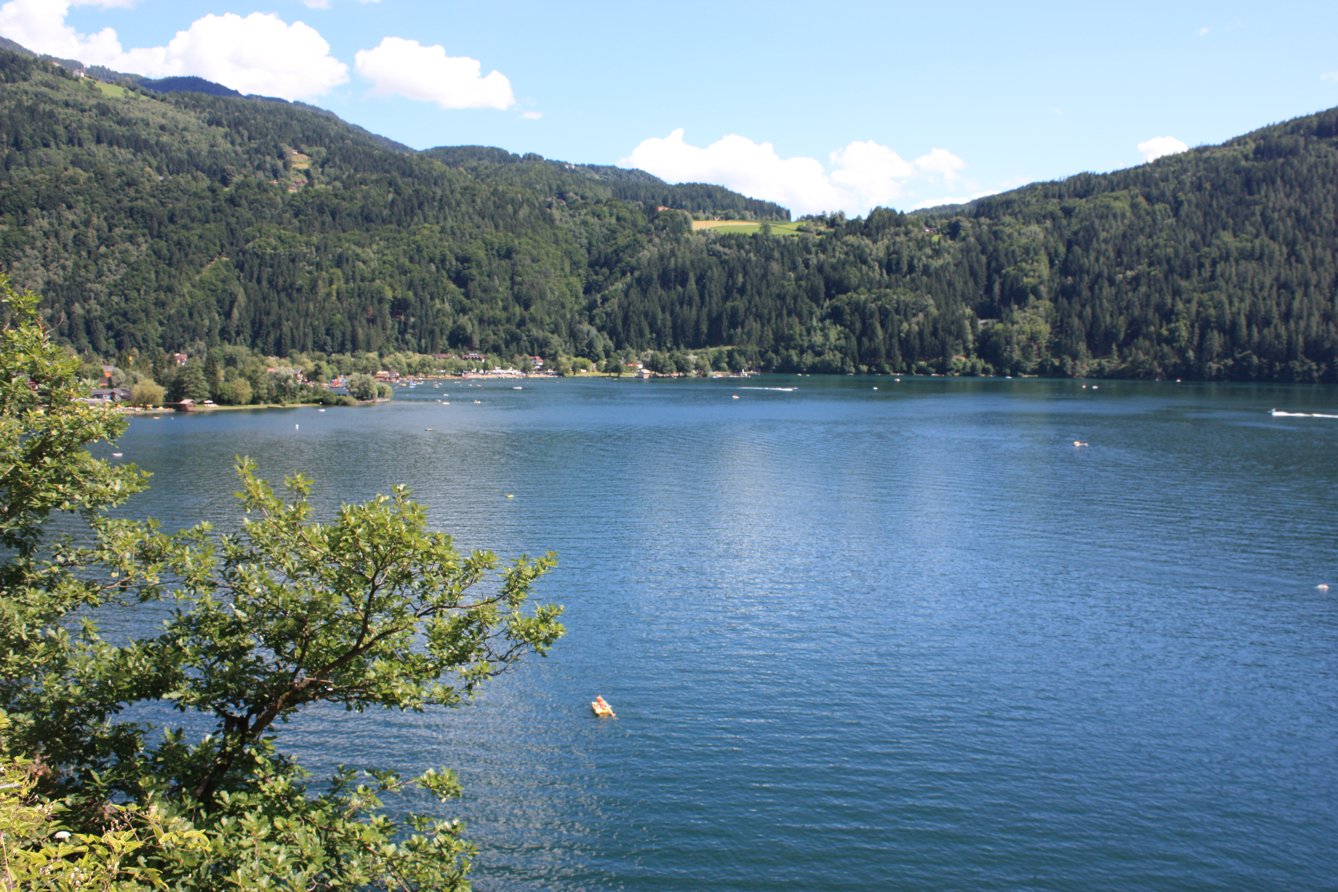 Eastend of Millstätter See